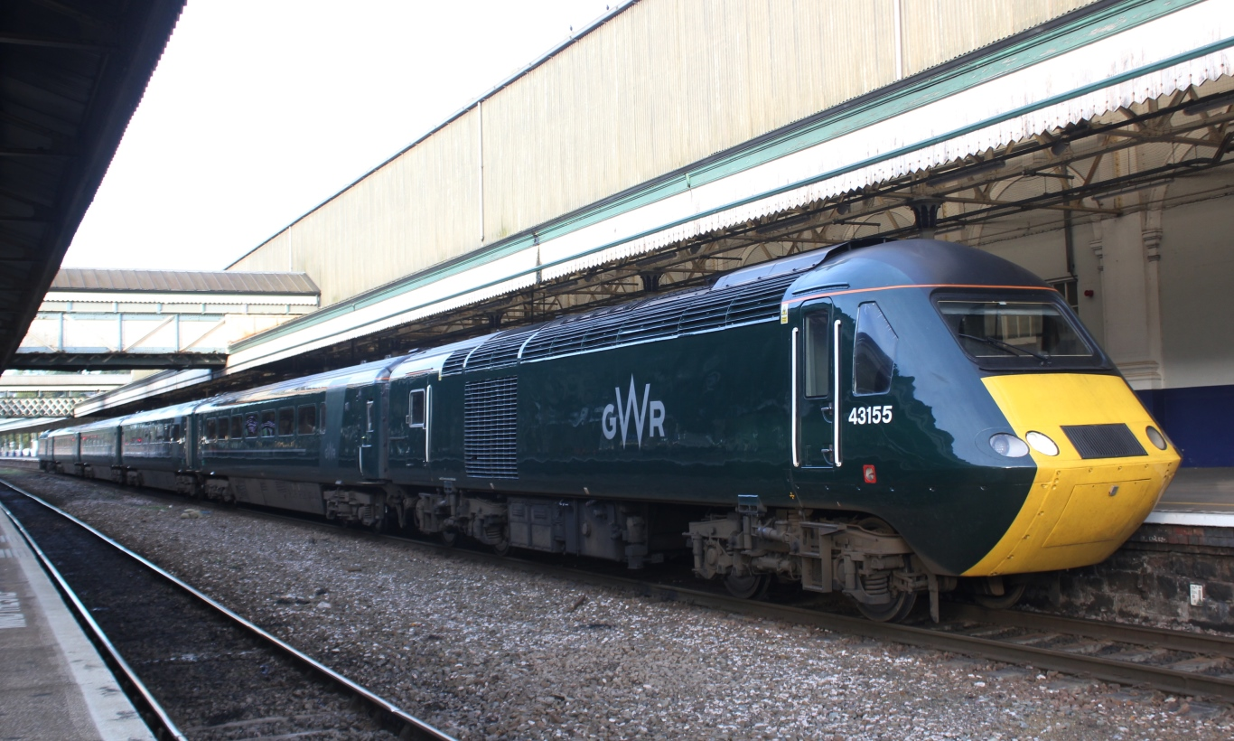 A Great Western Railway 'Castle Class' train. powered by 43155 and 43154, prepare to leave Exeter St Davids for Penzance. It is using platform 1 as its usual platform 6 is blocked by engineers building a new train maintenance shed alongside the station.